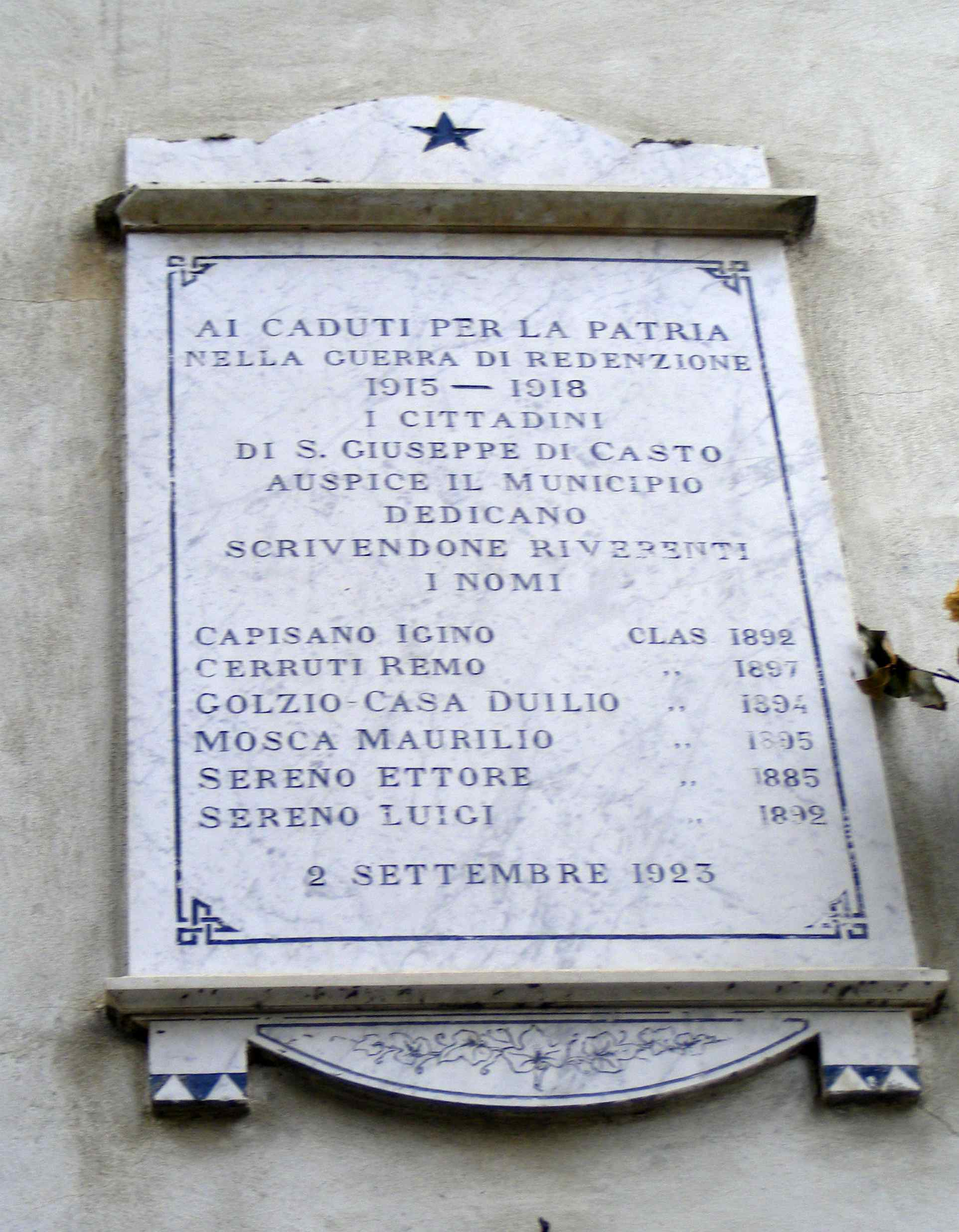 San Giuseppe di Casto (Andorno, BI, Italy): first world war casualties plaque